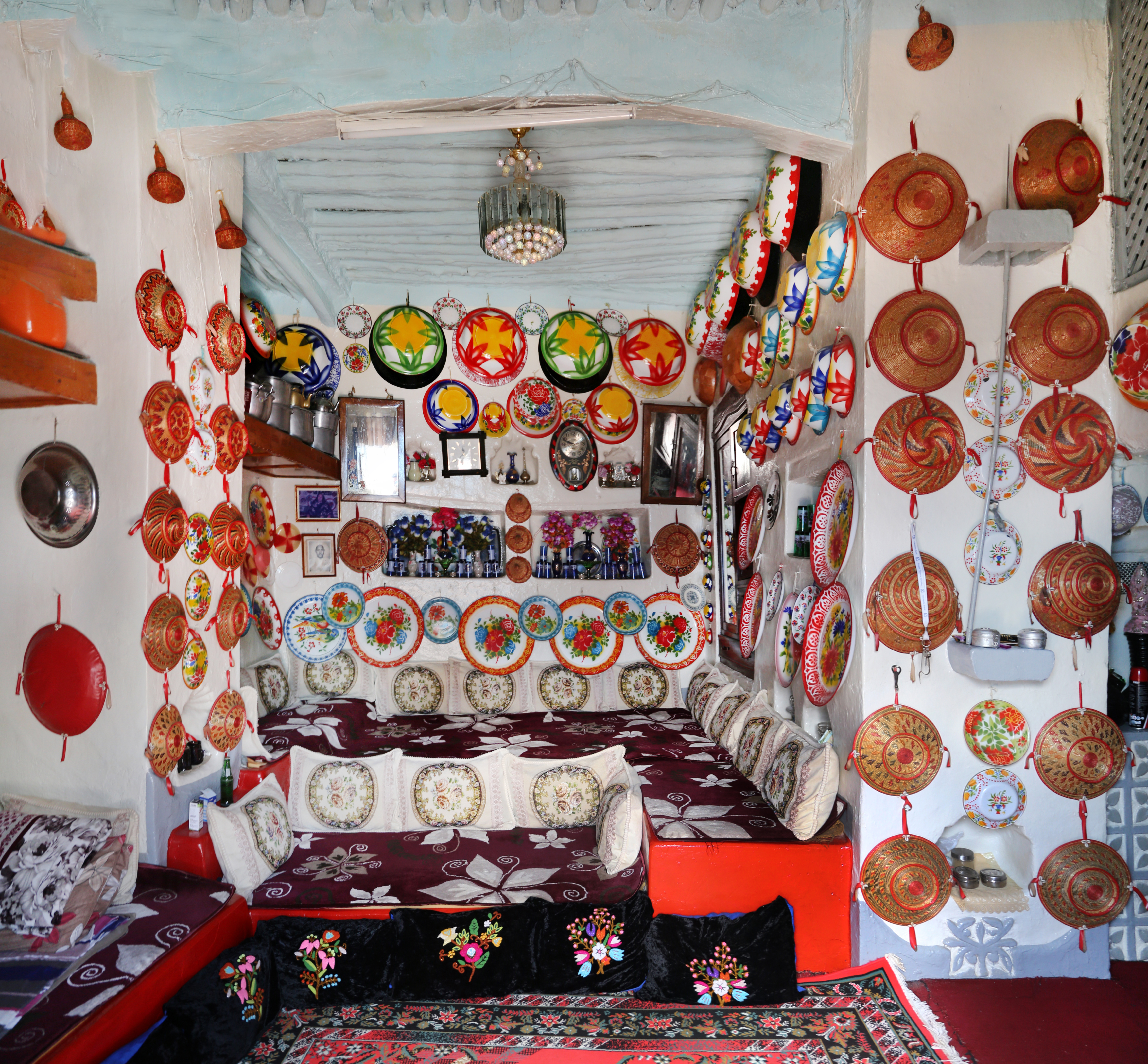 Streets in Harar